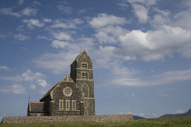 St Edwards Centre, Sanday